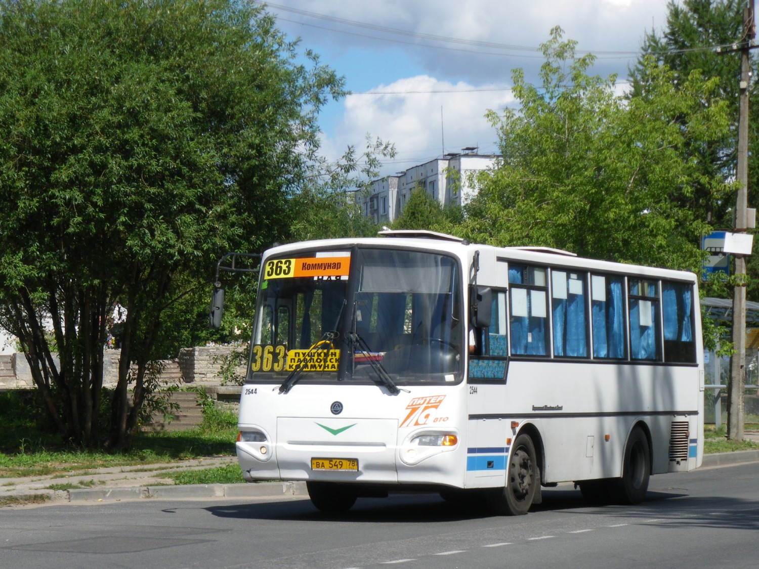 Bus (reg. BA 549 78, #2544) on line 363 in Kommunar, Russia.